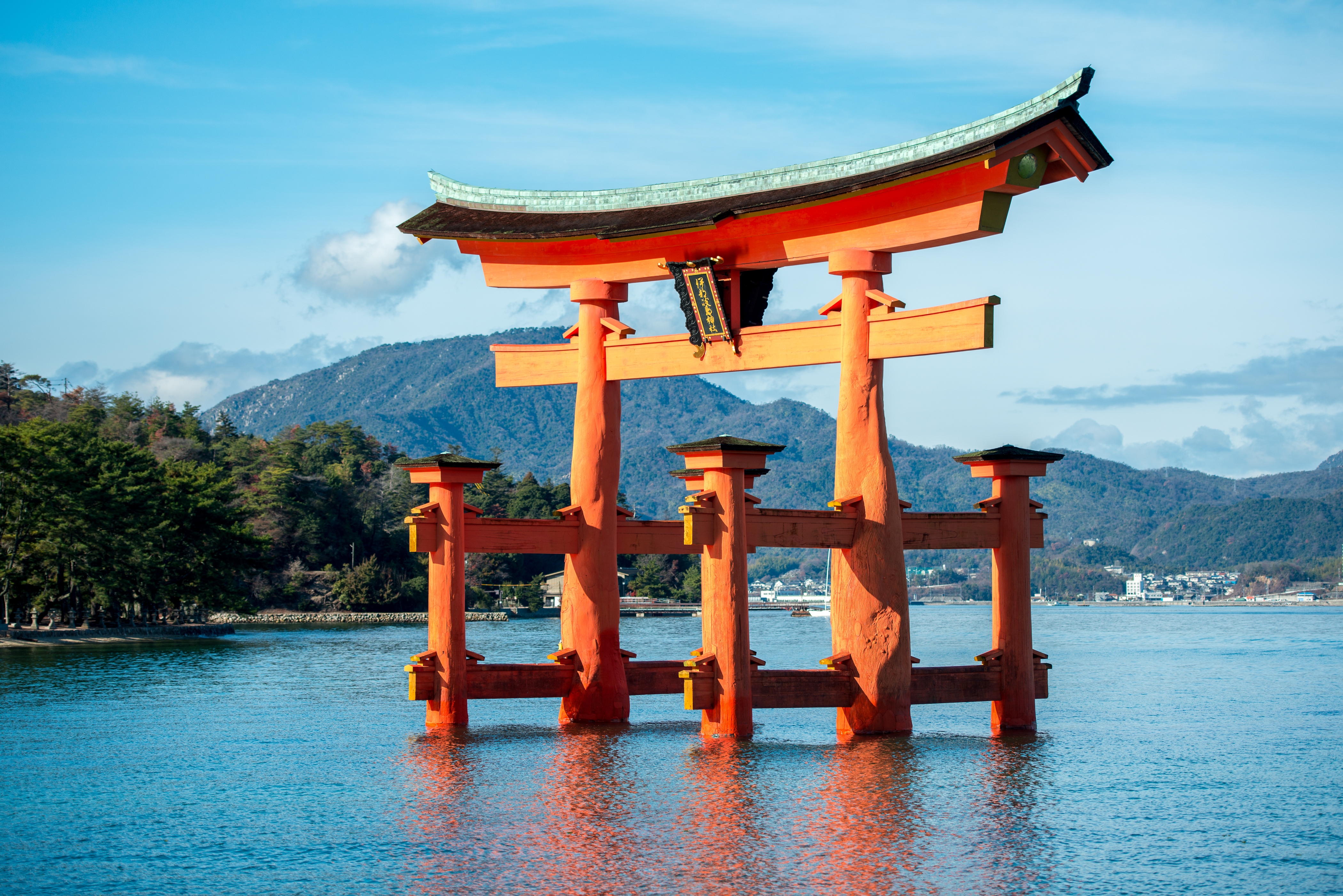 The torii gate at Itsukushima Shrine on the island of Itsukushima (popularly known as Miyajima) in Hiroshima Prefecture, Japan